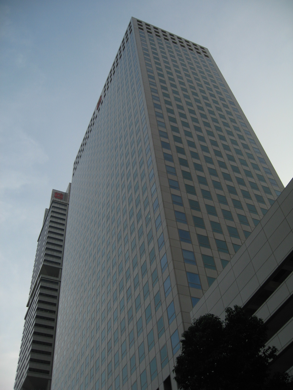 DBS Tower Two.